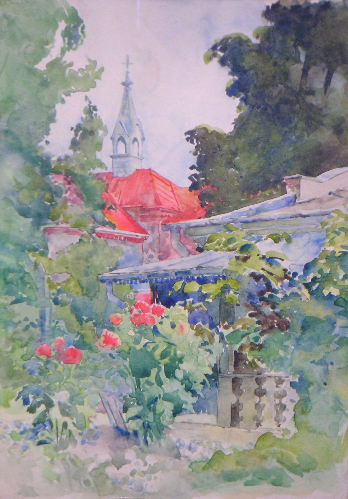 photo of a watercolour painting by Zdzislaw Pagowski, depicting a sight in Krynica Gorska, Poland